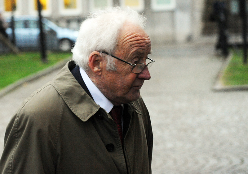 The Swedish Social Democratic politician Kjell-Olof Feldt.